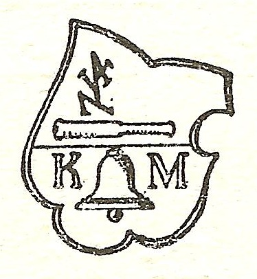 Coat of arms/foundry mark of Karsten Middeldorp